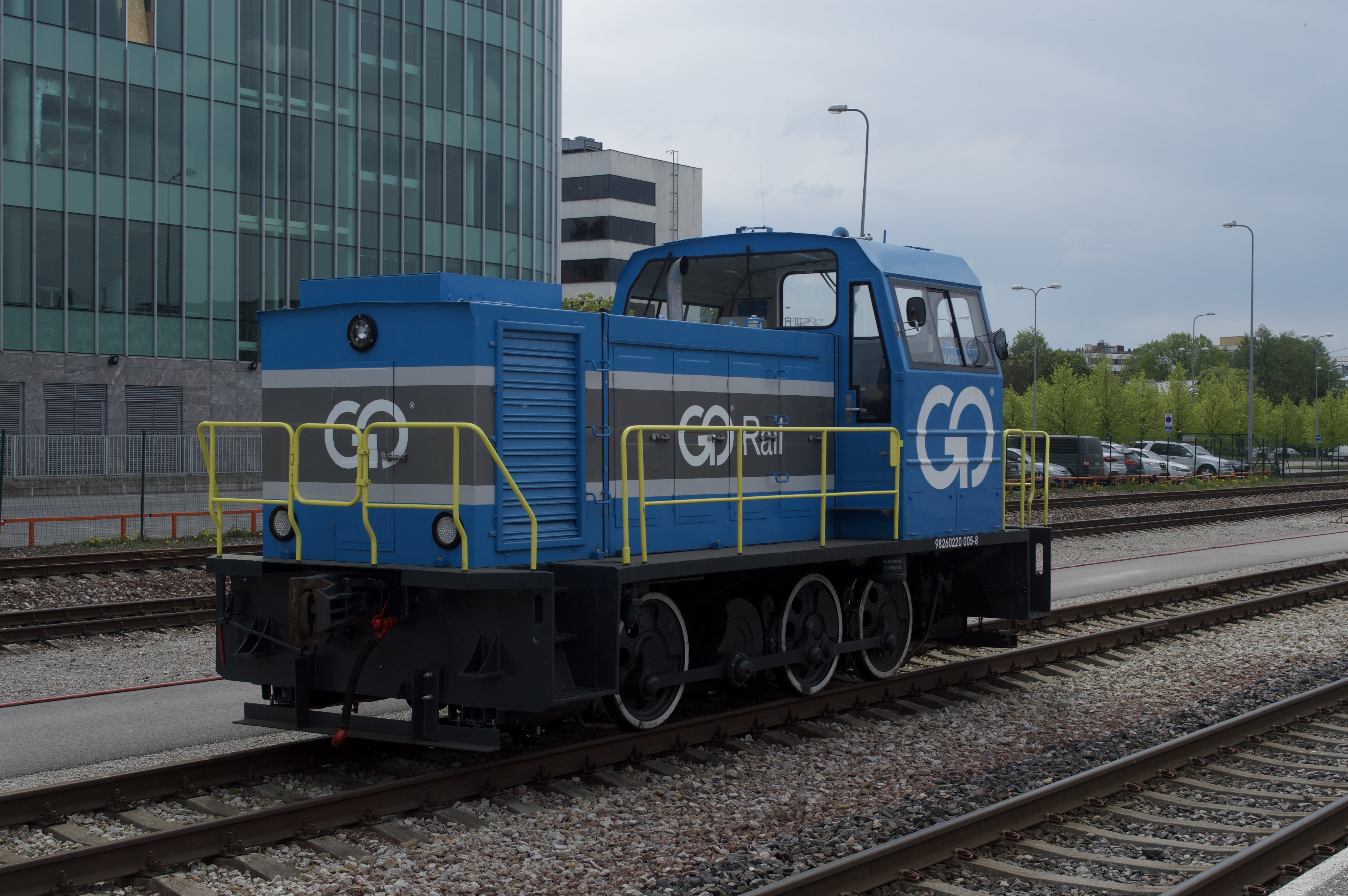 Station pilot at Tallinn which seems to be utilised once a day to shunt the empty stock of the train from Moscow and St Petersburg from the platform into the these sidings for servicing. The TGM23 loco which then works the train takes care of the shunt back into the platforms for the late afternoon departure to Russia. Number is 98260220 005-8